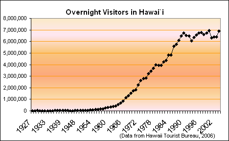 Graph illustrating the trend of tourism in Hawai`i